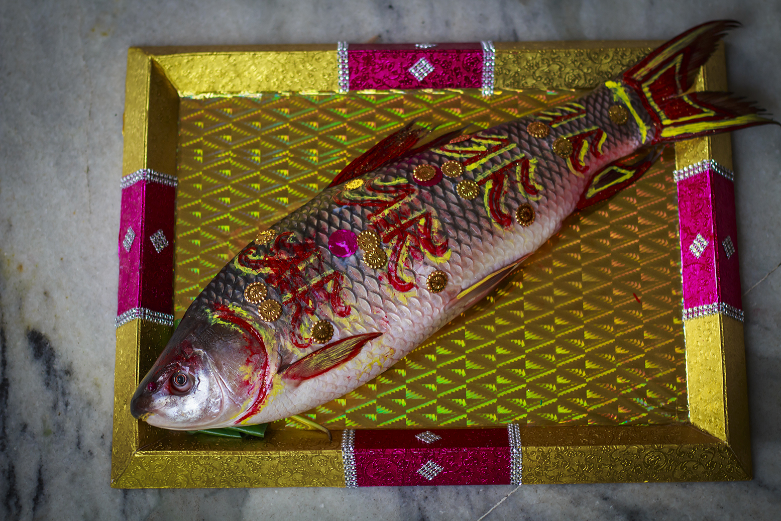 In Bengali weddings, the gifts are specially wrapped before sending them to the household of the bride and groom. However, such gifts have special motifs and fish is one of them.